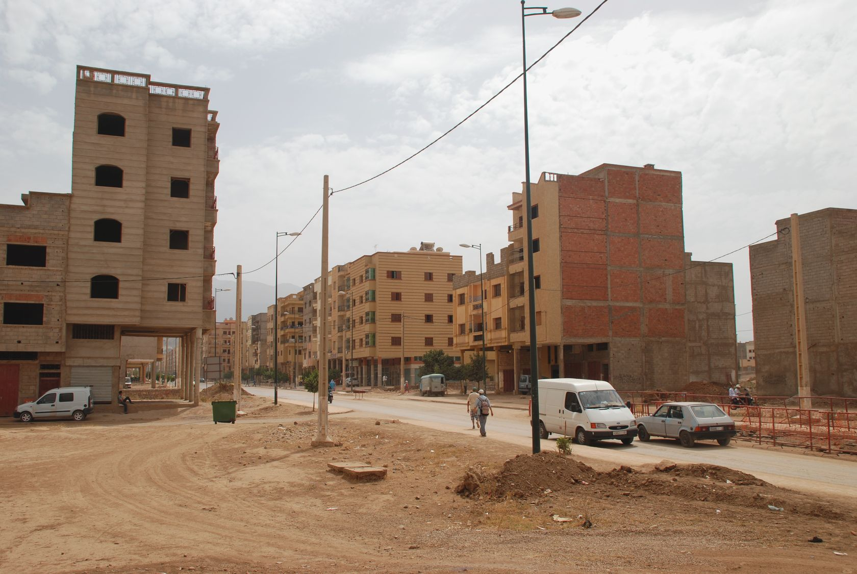 Beni Mellal, Morocco, new city west